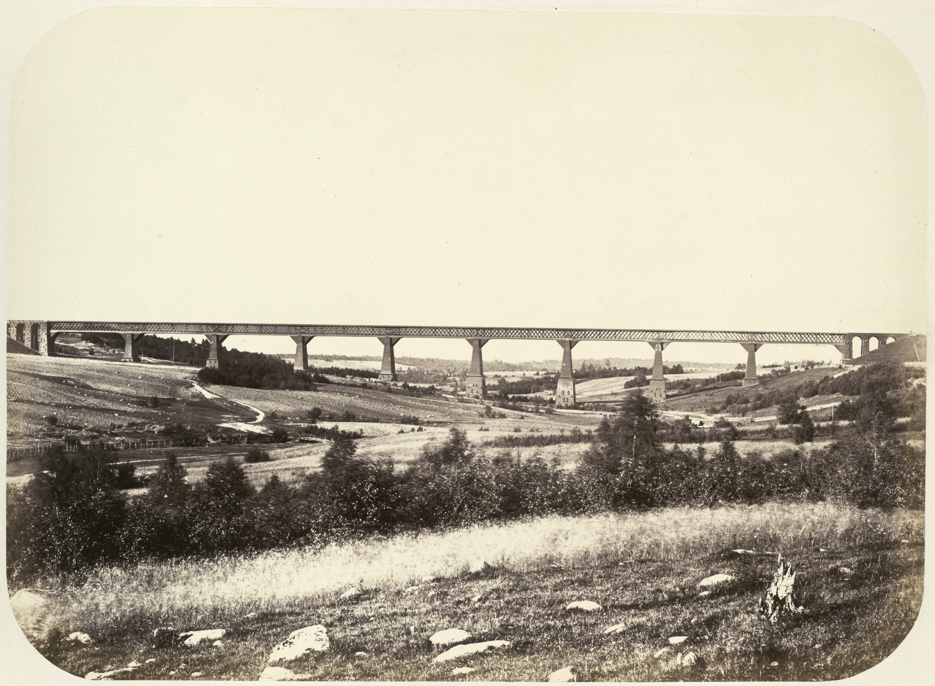 Vereb'inskiy bridge